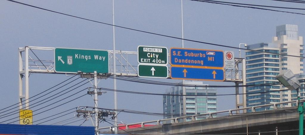 The approach to the CityLink toll section in Melbourne, Australia. Taken by SteveRwanda